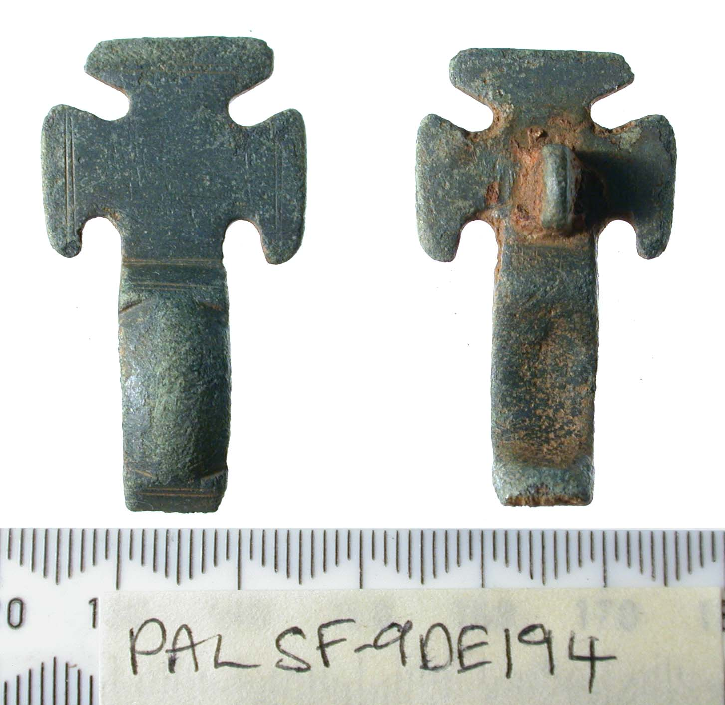 An incomplete copper-alloy early Anglo-Saxon small long brooch with the head and bow surviving and the rest of the brooch missing due to old breaks now worn. It measures 38.7mm in surviving length. The head plate is cruciform with T-shaped arms, it measures 18mm in length and 21.6mm in width. Each of the T-shaped arms has a pair of parallel transverse grooves across it. The bow is facted and has a parallel pair of transverse grooves at its top and base. On the reverse of the head plate there is a complete central pin loop with corroded iron in around it, presumably the remains of an iron pin. This small long brooch is similar in form to a more elaborate example from Haslingfield, Cambs (McGregor and Bolick 1993, 139, no 15.56).